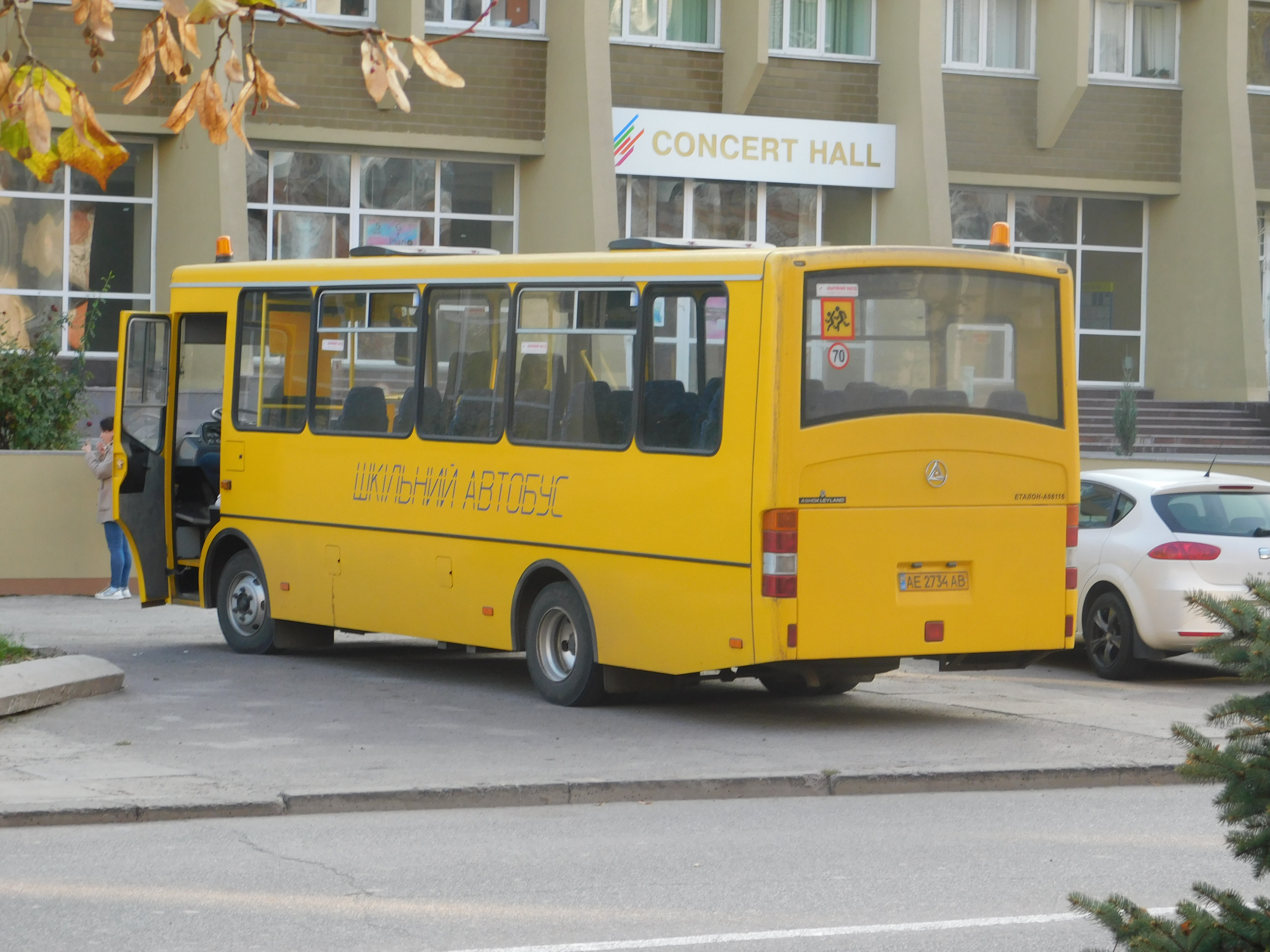 School bus Etalon A08116 parked in Dnipro, Ukraine; 26.10.19